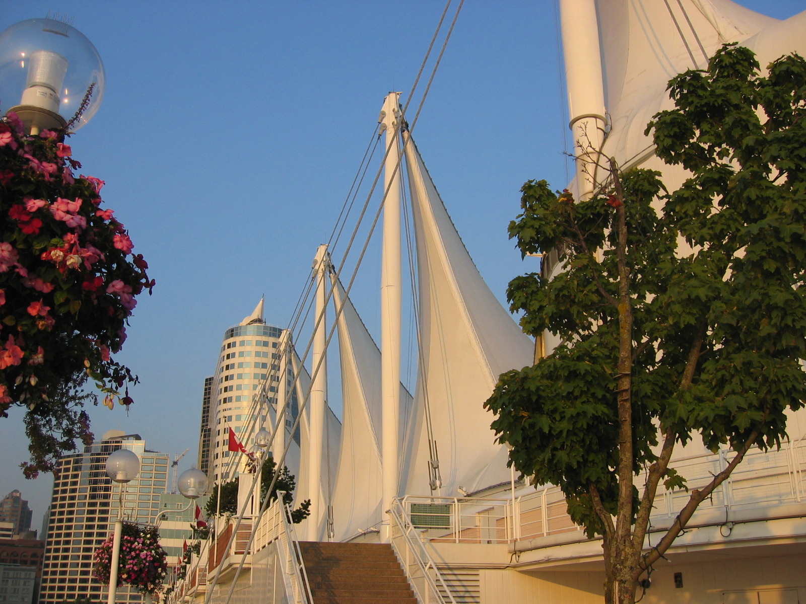 Canada Place, Vancouver